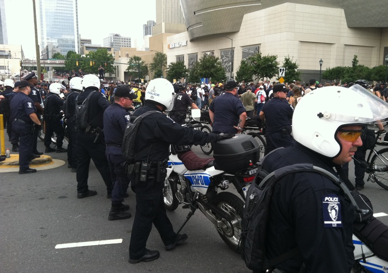 Manning March Standoff 3